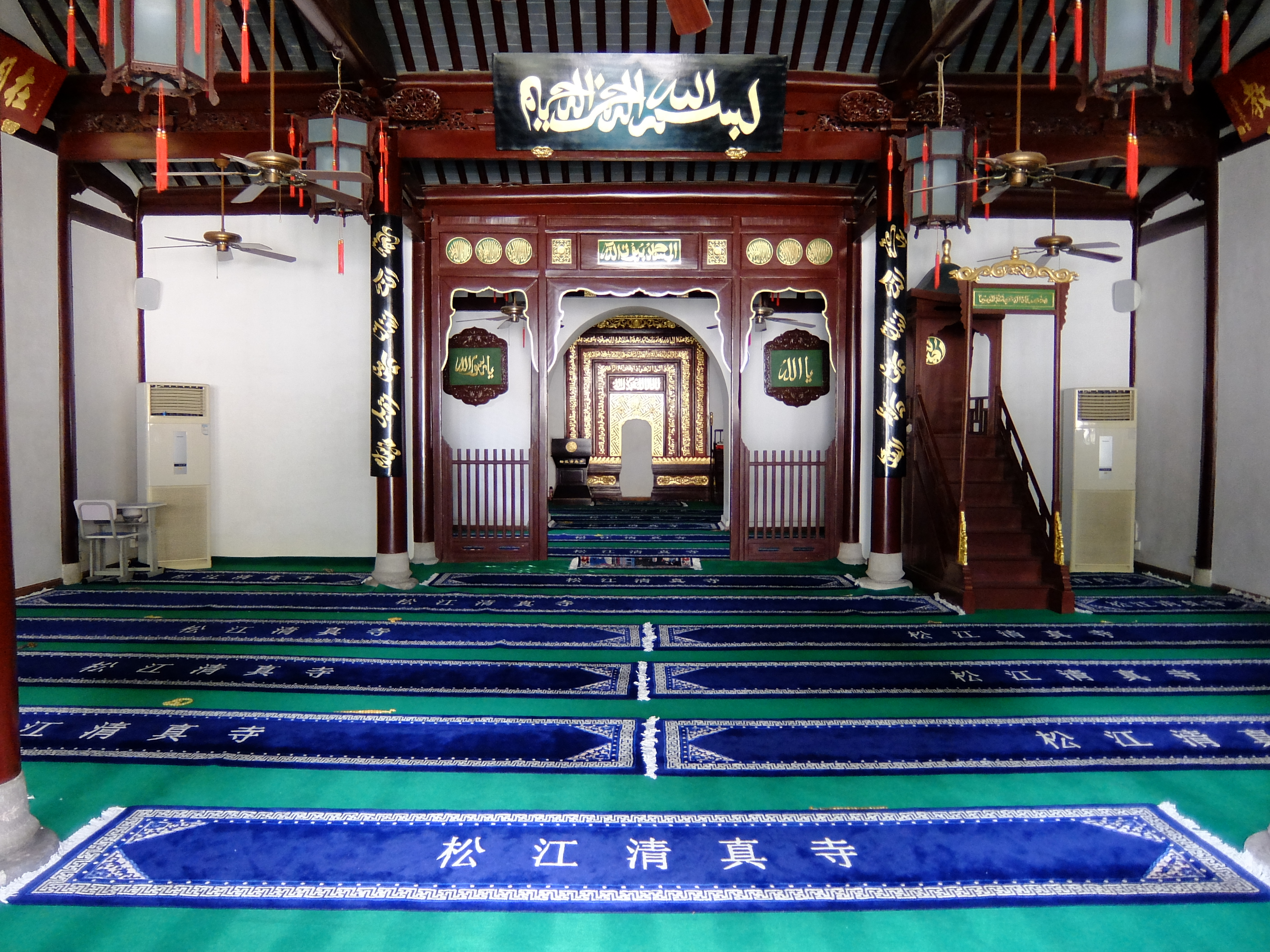 Songjiang Mosque, Songjiang, Shanghai, China